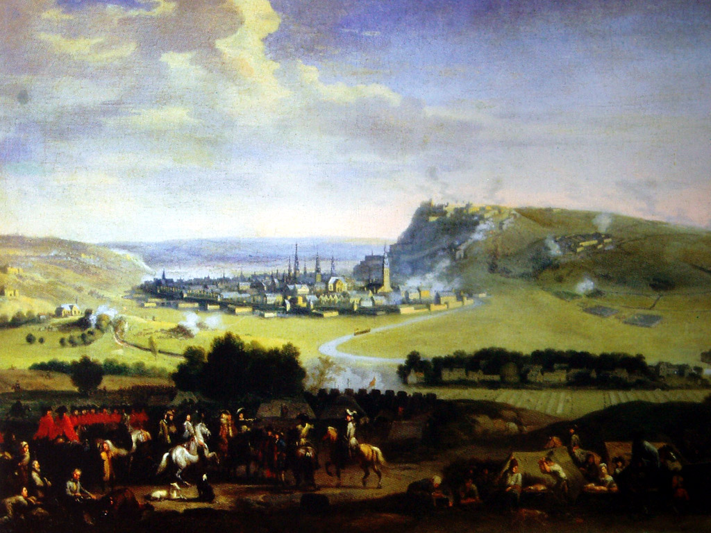 The Siege of Namur, 1695